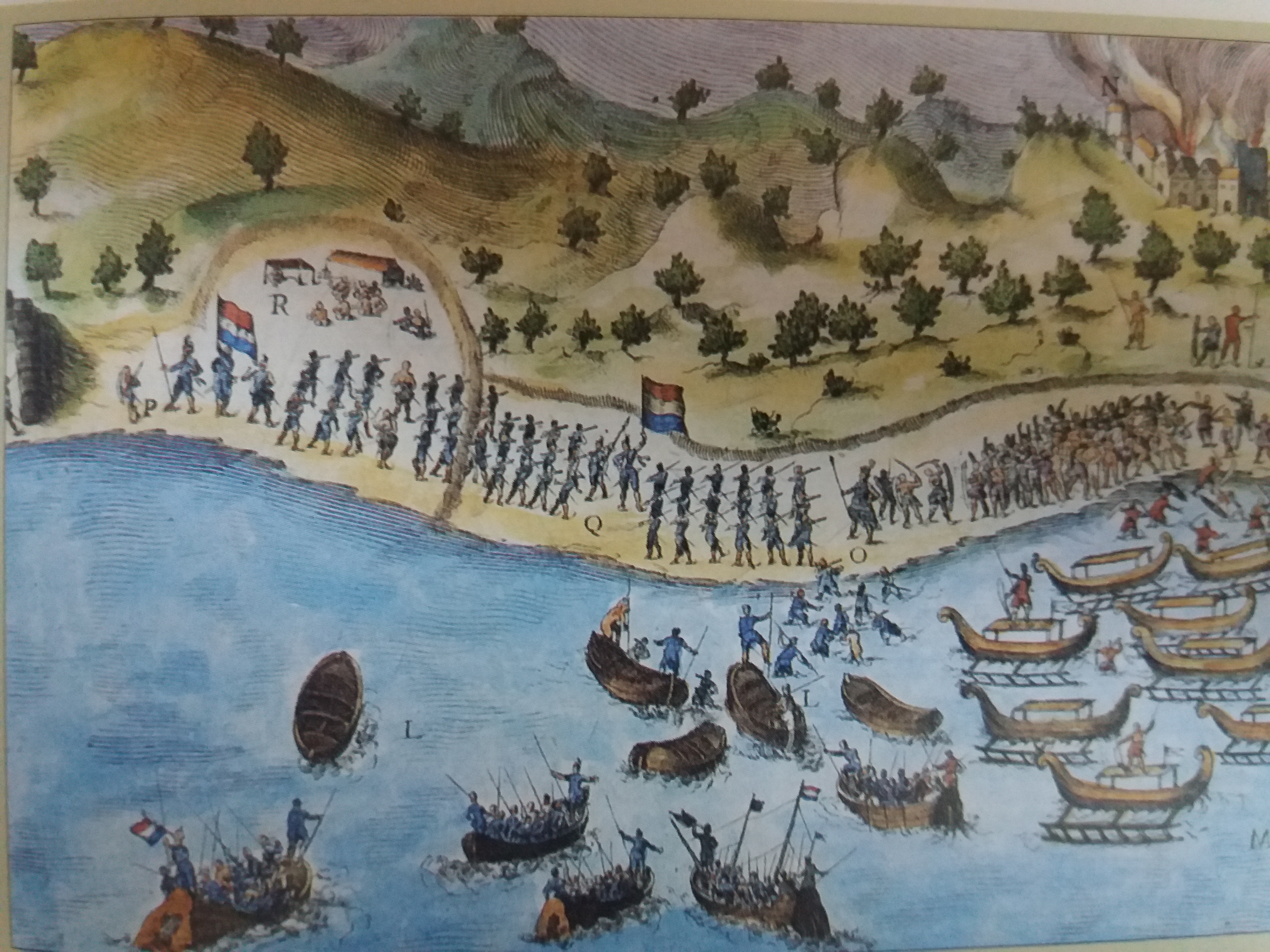 The Dutch land in Tidore in 1605, from India Orientalis (1607)